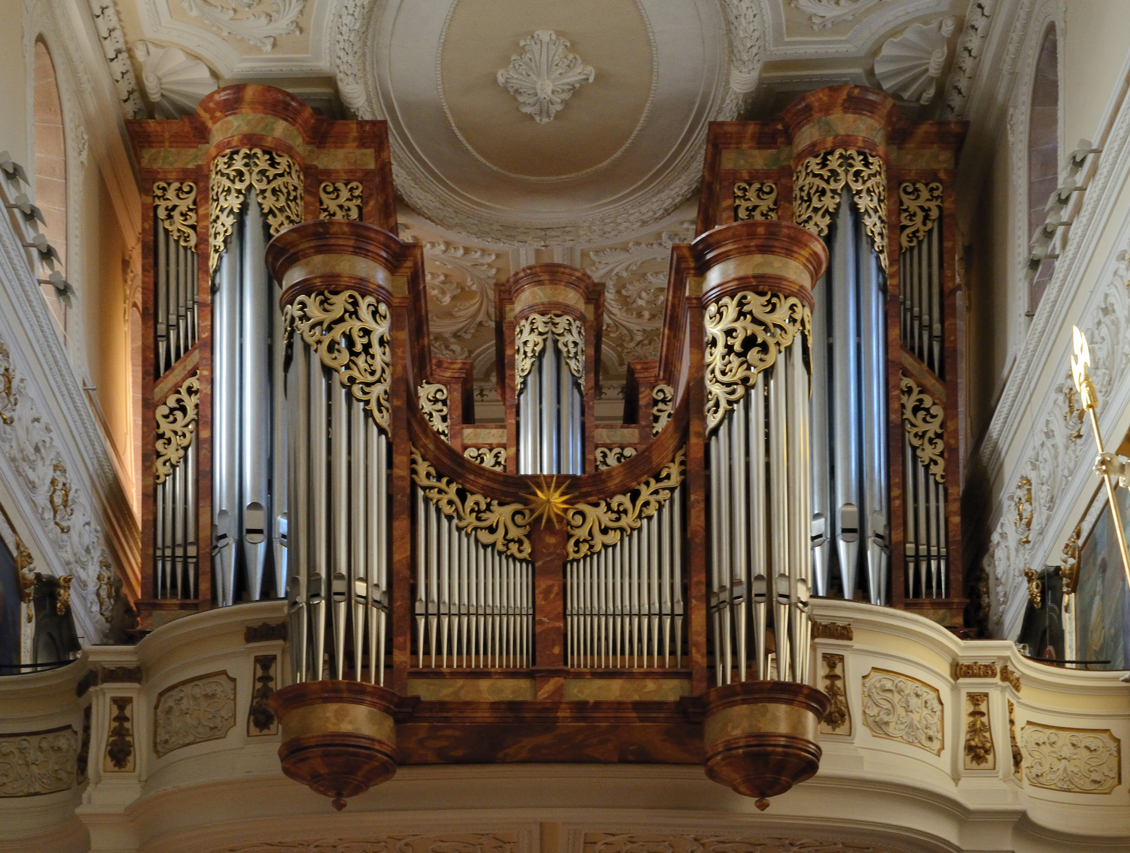 Villingen: Blessed Virgin Mary Church